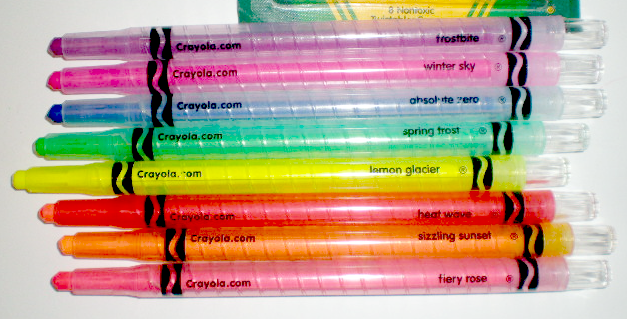 Crayola Twistables Crayons - Extreme Colors